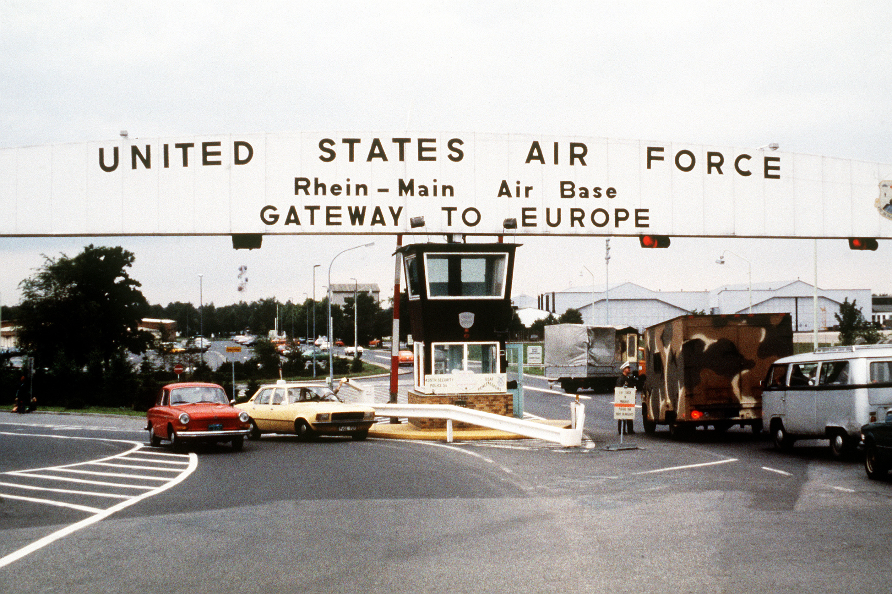 An Aerospace Audiovisual Service (AAVS) television van, painted in a camouflage scheme, enters the main gate. The van will be used by Detachment 3, 1361st Audiovisual Squadron, Rhein-Main Air Base, West Germany.